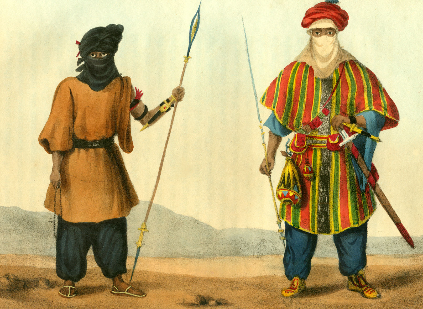 "Tuarick in a Shirt of Leather / Tuarick of Aghades" by Lyon